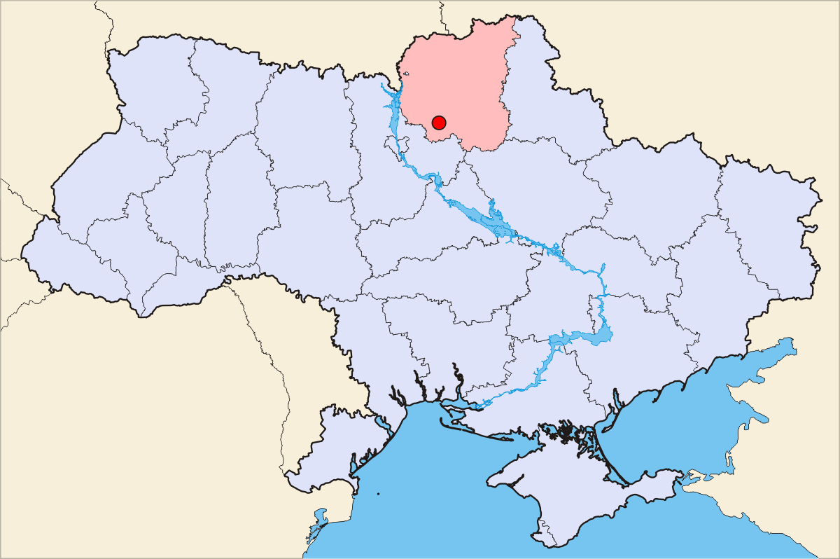 Description = Kobyzhcha, Ukraine geographical position Source = own work, User:DDima Date = 02.04.2006 Author = User:DDima Credits = Colours chosen according to a map of steschke